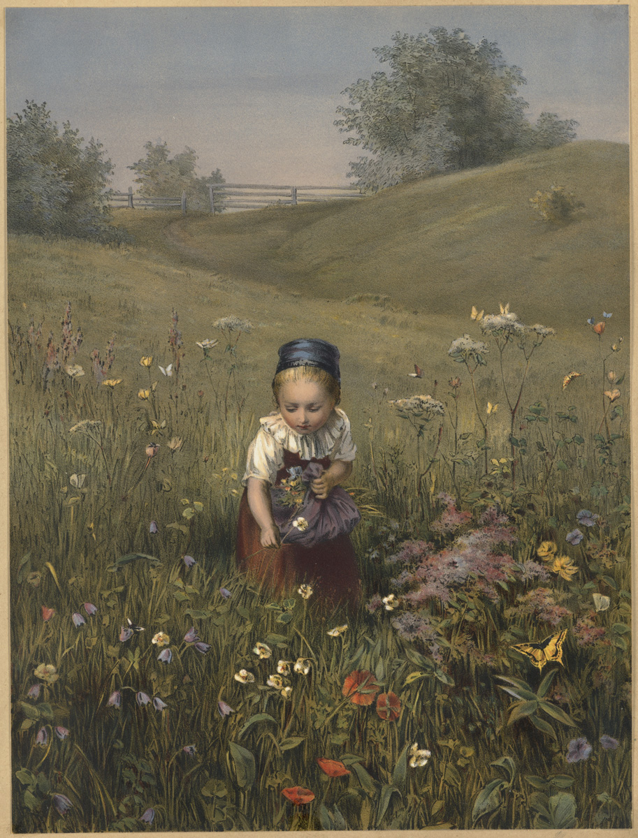 File name: 07_11_001193 Title: Spring Flowers Creator/Contributor: Knaus, Ludwig, 1829-1910 (artist); L. Prang & Co. (publisher) Date issued: 1861-1897 (approximate) Copyright date: Physical description note: Genre: Chromolithographs; Portrait prints Location: Boston Public Library, Print Department Rights: No known restrictions Flickr data on 2011-08-04: Camera: Sinar AG Sinarback 54 FW, Sinar m License: CC BY 2.0 User: Boston Public Library BPL